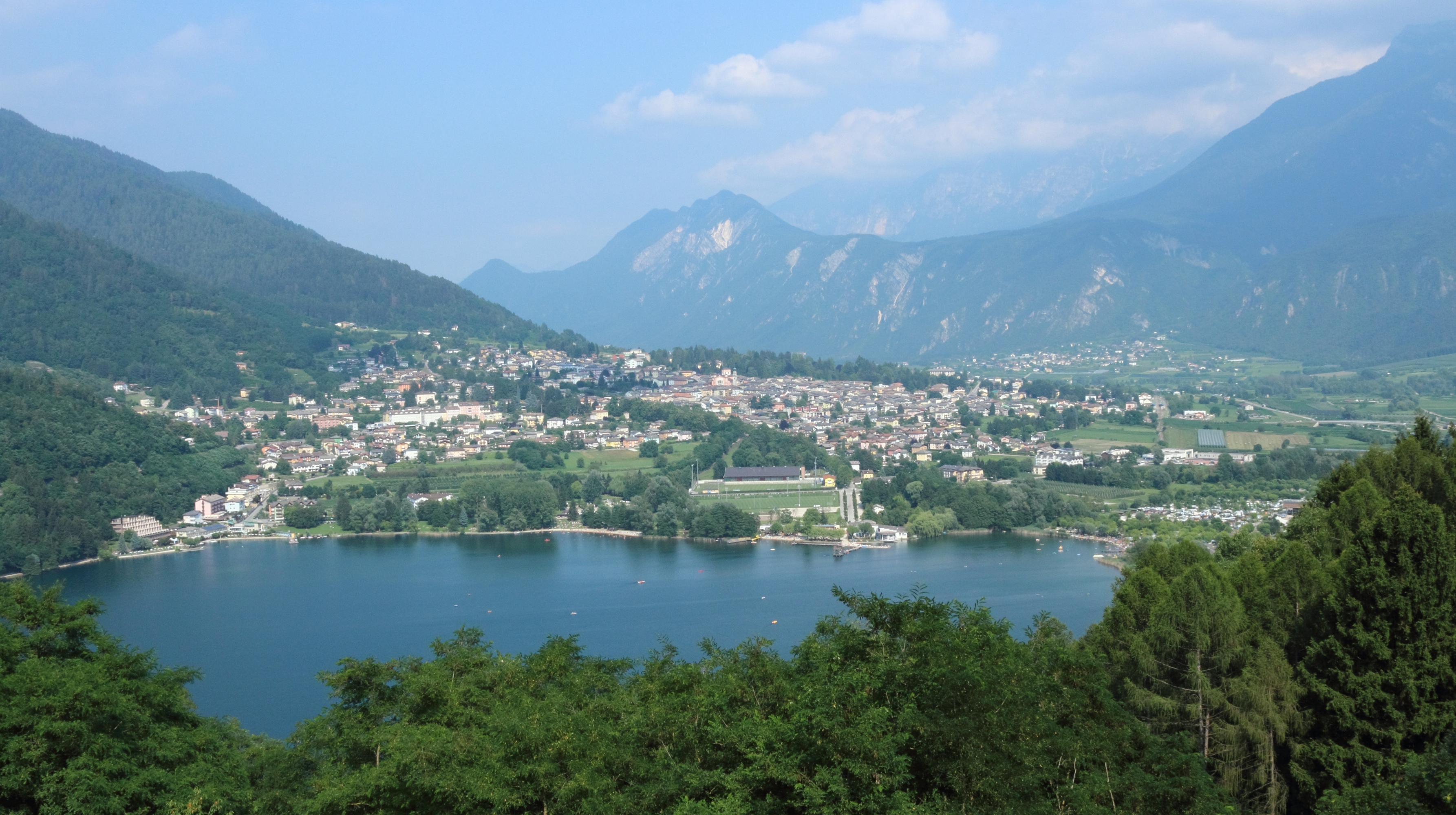 The town Levico Terme as seen from a path going towards Tenna, Trentine. Lake Levico is seen in the foreground.